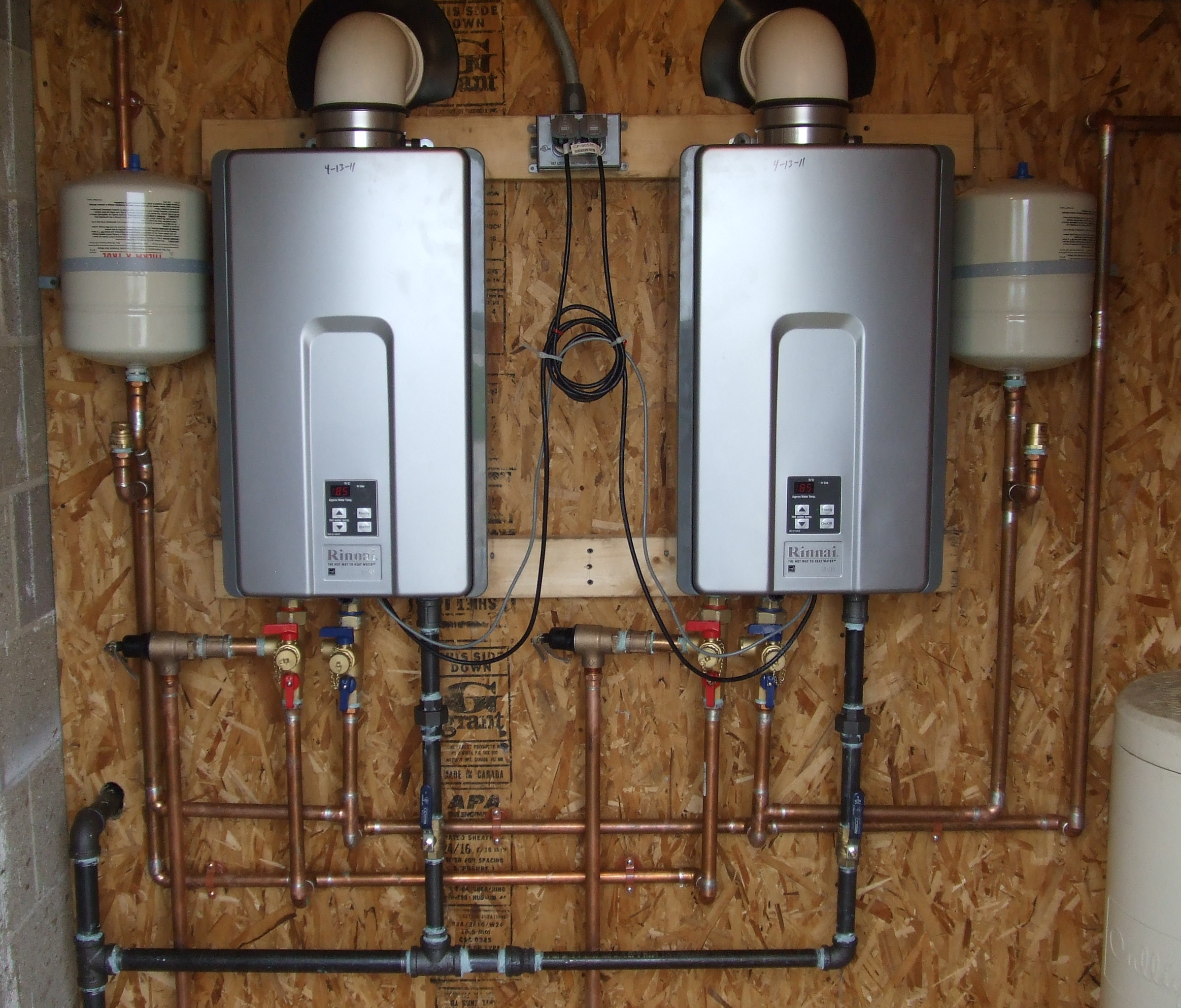 Two Rannai brand, tankless water heaters in a commercial setting. Each unit is rated 199,000 BTU (35 kW) and the two work in parallel, heating water to 185 degrees Fahrenheit (85 °C). Located on a dairy farm and provide hot water for cleaning milking equipment.